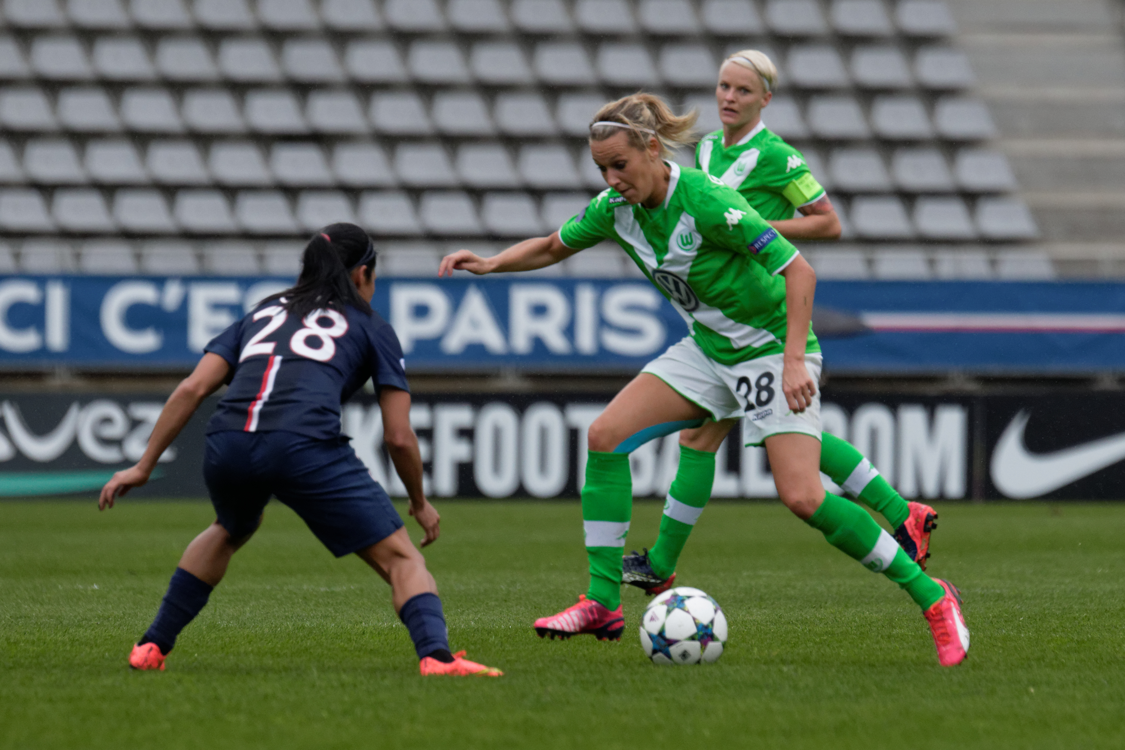 UEFA Women's Champions League, PSG - Wolfsburg, 26 April 2015.